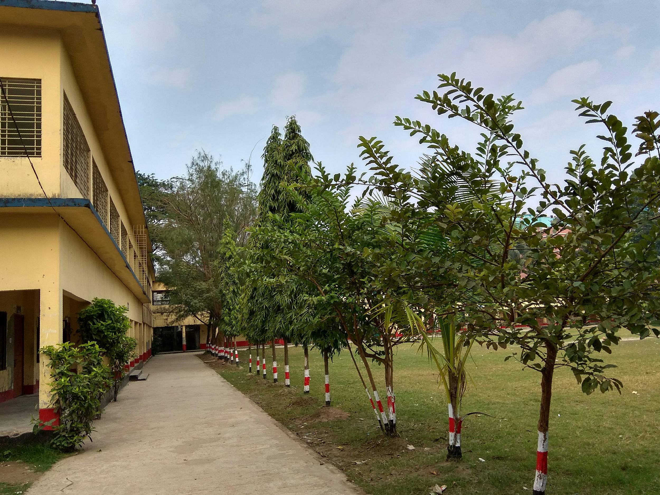 Asmat Ali Khan (A.K) Institution, Barisal Academic Building